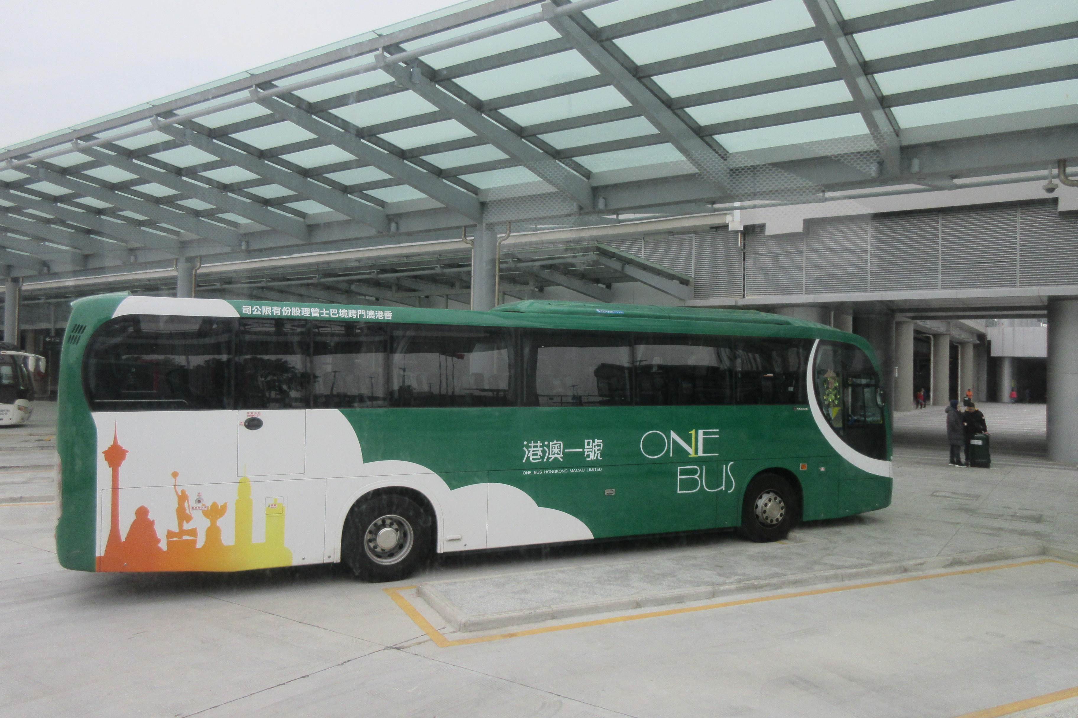 MC 澳門 Macau 港珠澳大橋 HK-Zhu-Macau Bridge port building in January 2019